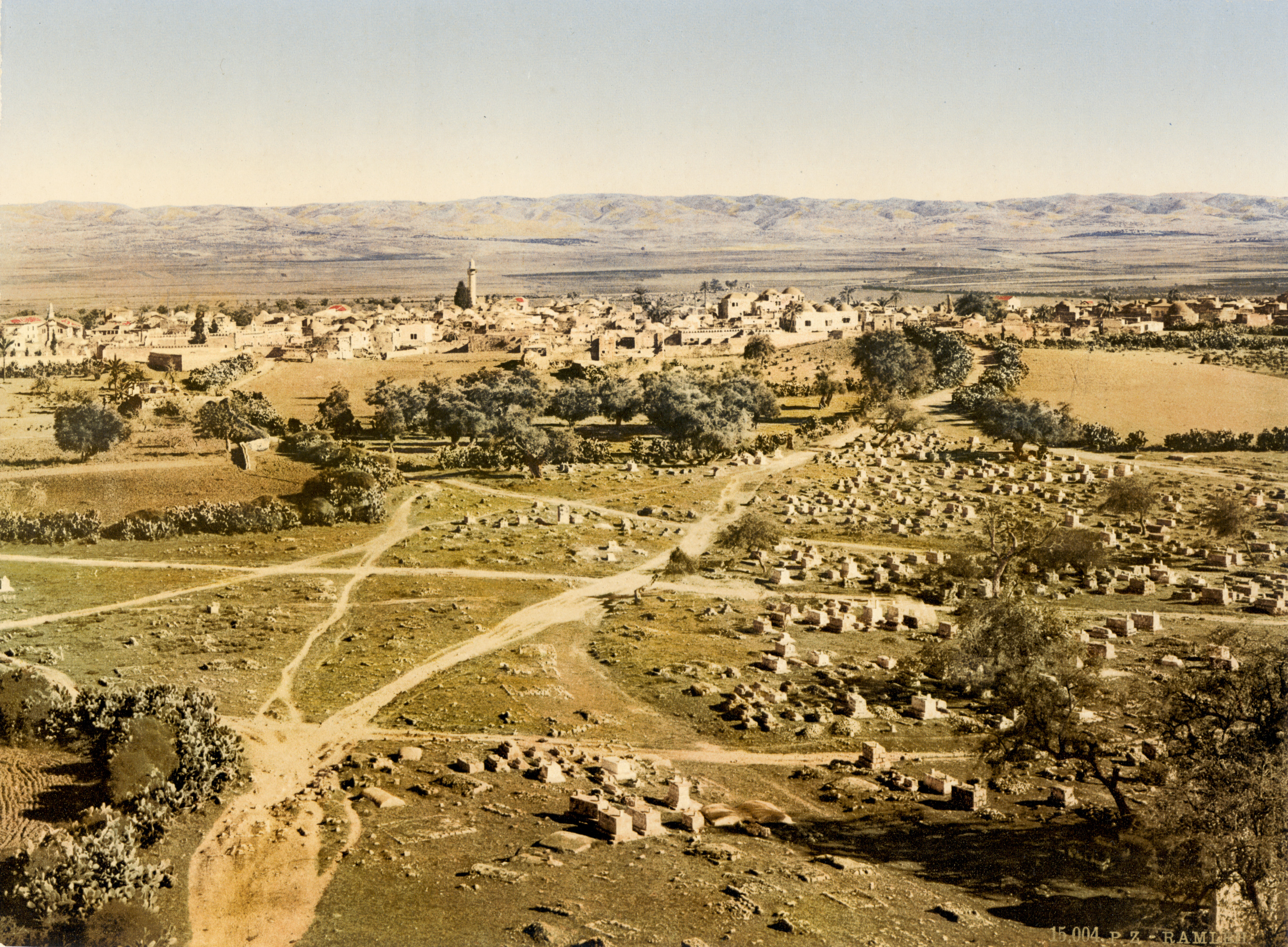 Taken from the Detroit Publishing Co. Collection at the U.S. Library of Congress. [PD] This picture is in the public domain.